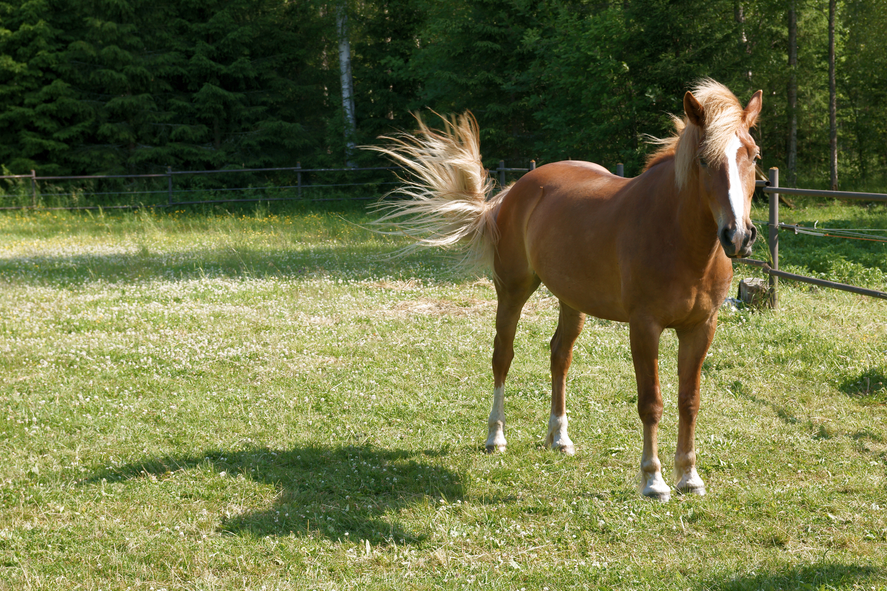 A Finnhorse gelding whisking flies away on the pasture.